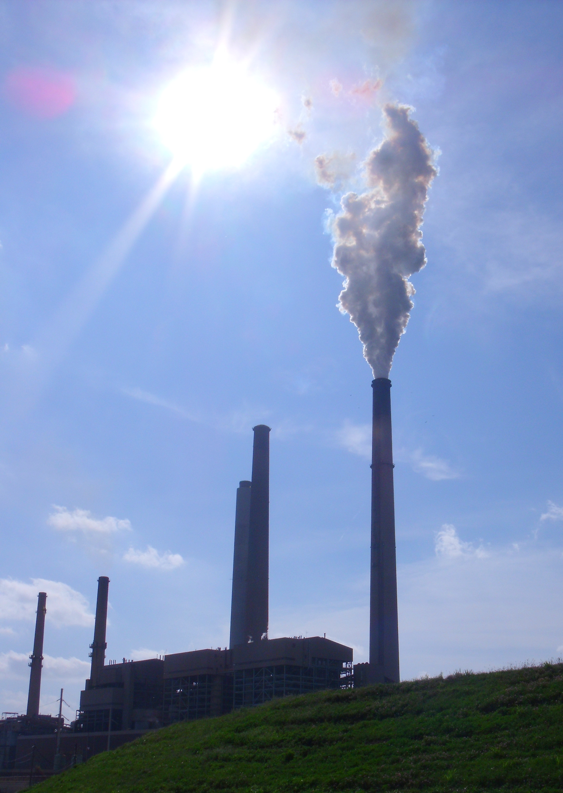 Conesville Power Plant near Conesville, Ohio